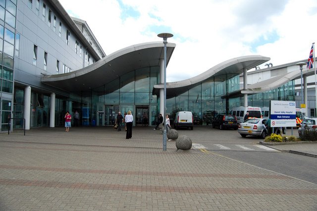 Darent Valley Hospital Darent Valley Hospital Main Entrance.